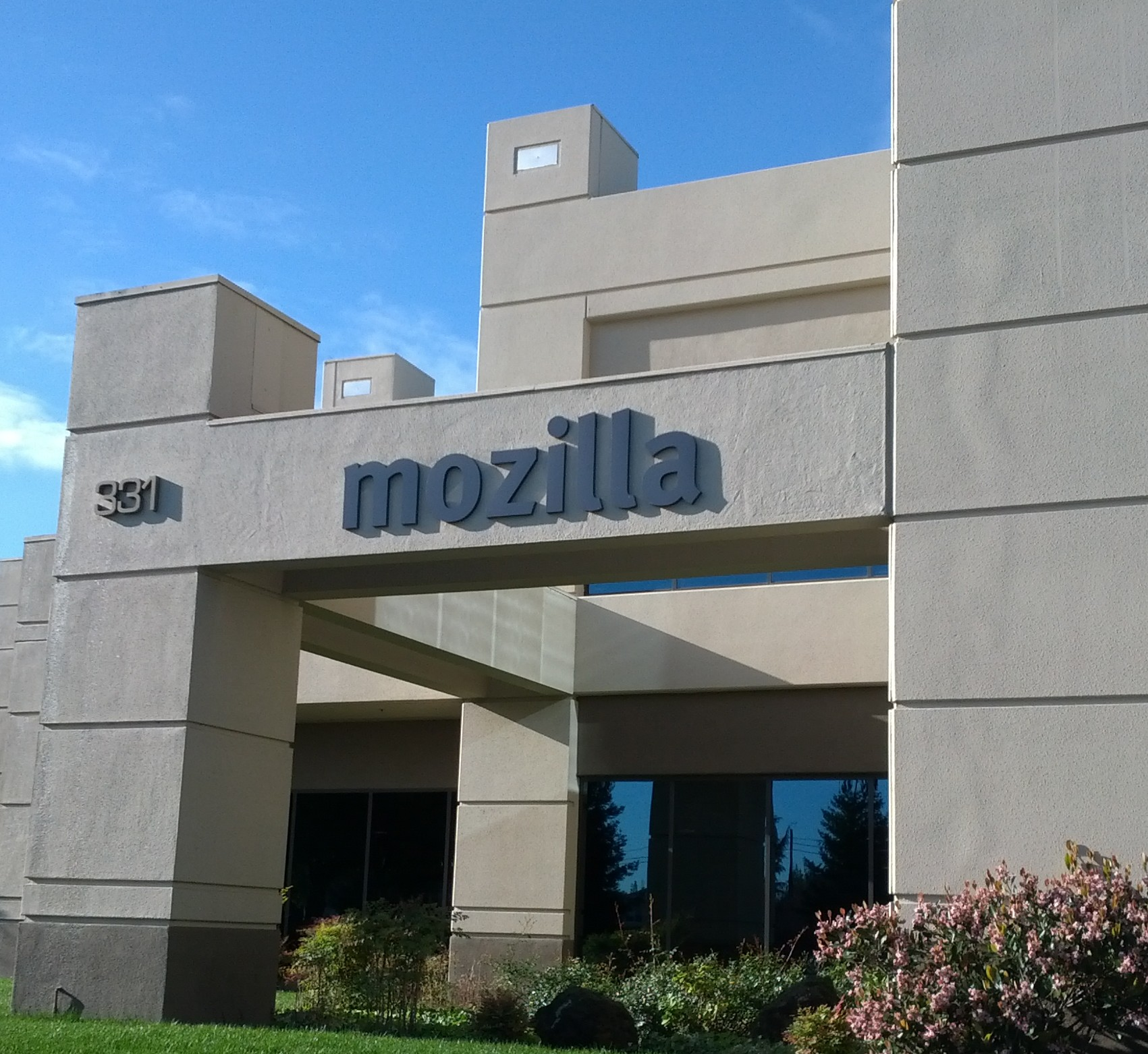 Mozilla's headquarters at 331 E. Evelyn Avenue, Mountain View, CA.